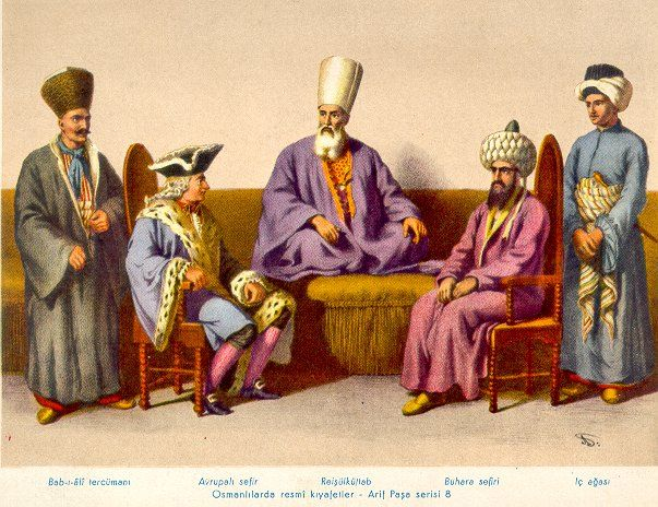 Official uniforms of the Ottomans, Arif Paşa series. Babıali Tercümanı (Translator between the Grand Vizier and Ambassadors), Avrupalı Sefir (European Ambassador), Reisülküttab (Foreign Affairs Minister), Buhara Sefiri (Ambassador from Bukhara), İç Ağası (Interior Services Officer at the Grand Vizier's Office)